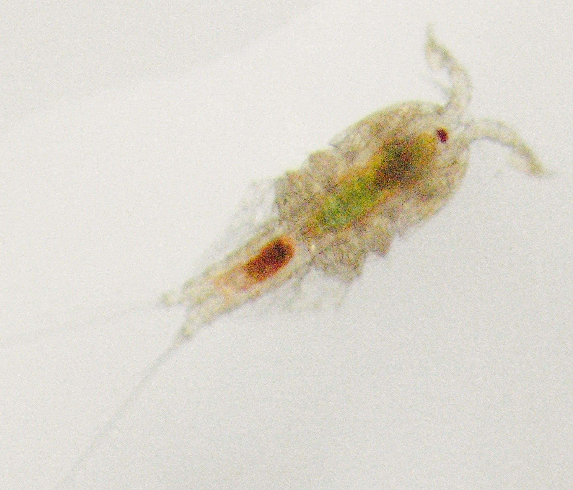 Microscope image of a living male Atlantic Tigger-Pod T.brevicornis. Note the single naupliar eye and the green intestinal region from the main diet of micro algae. Animal is approximately 1mm in length.